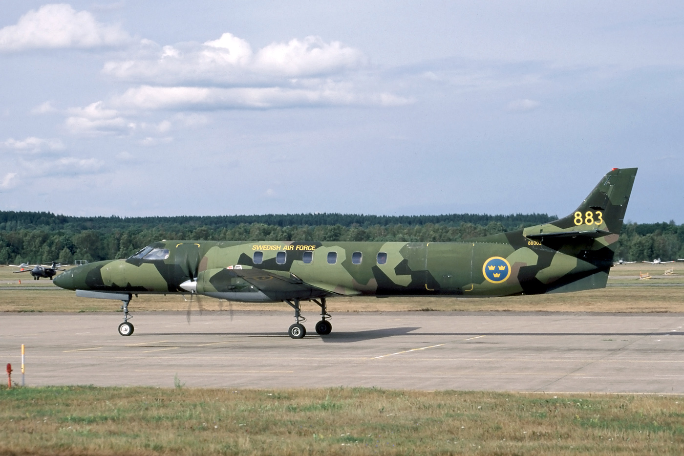 Ljungbyhed, 25 August 1996. Fairchild Swearingen SA-227 Metro (also known as Tp88 in the Swedish Air Force). Very nice camouflage! This Metro left the service in 1997.